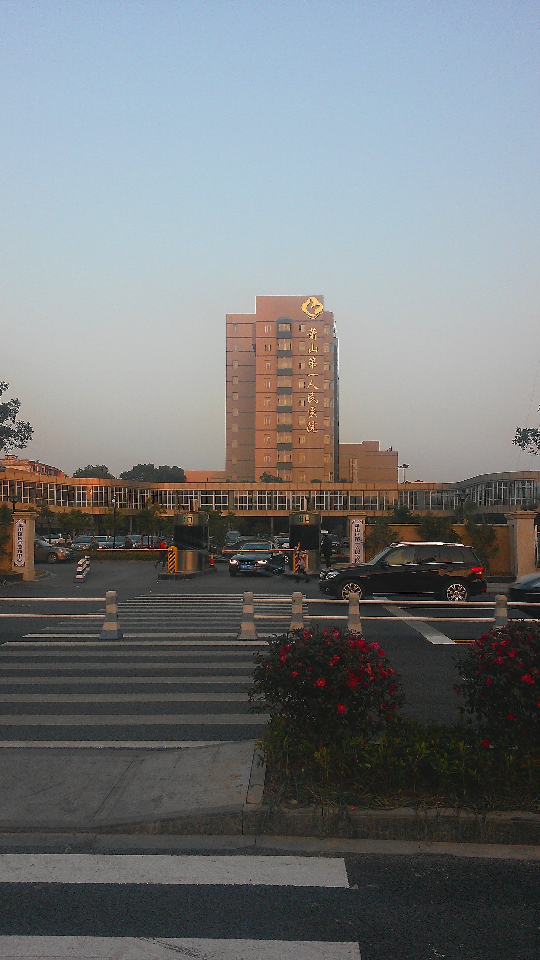 Xiaoshan First People's Hospital